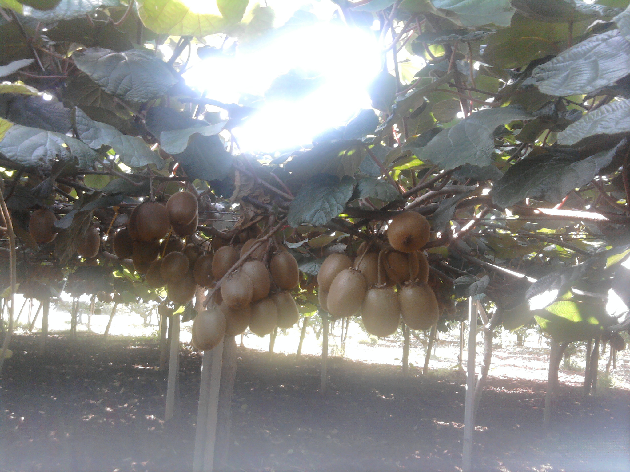 A cultivation of Kiwi